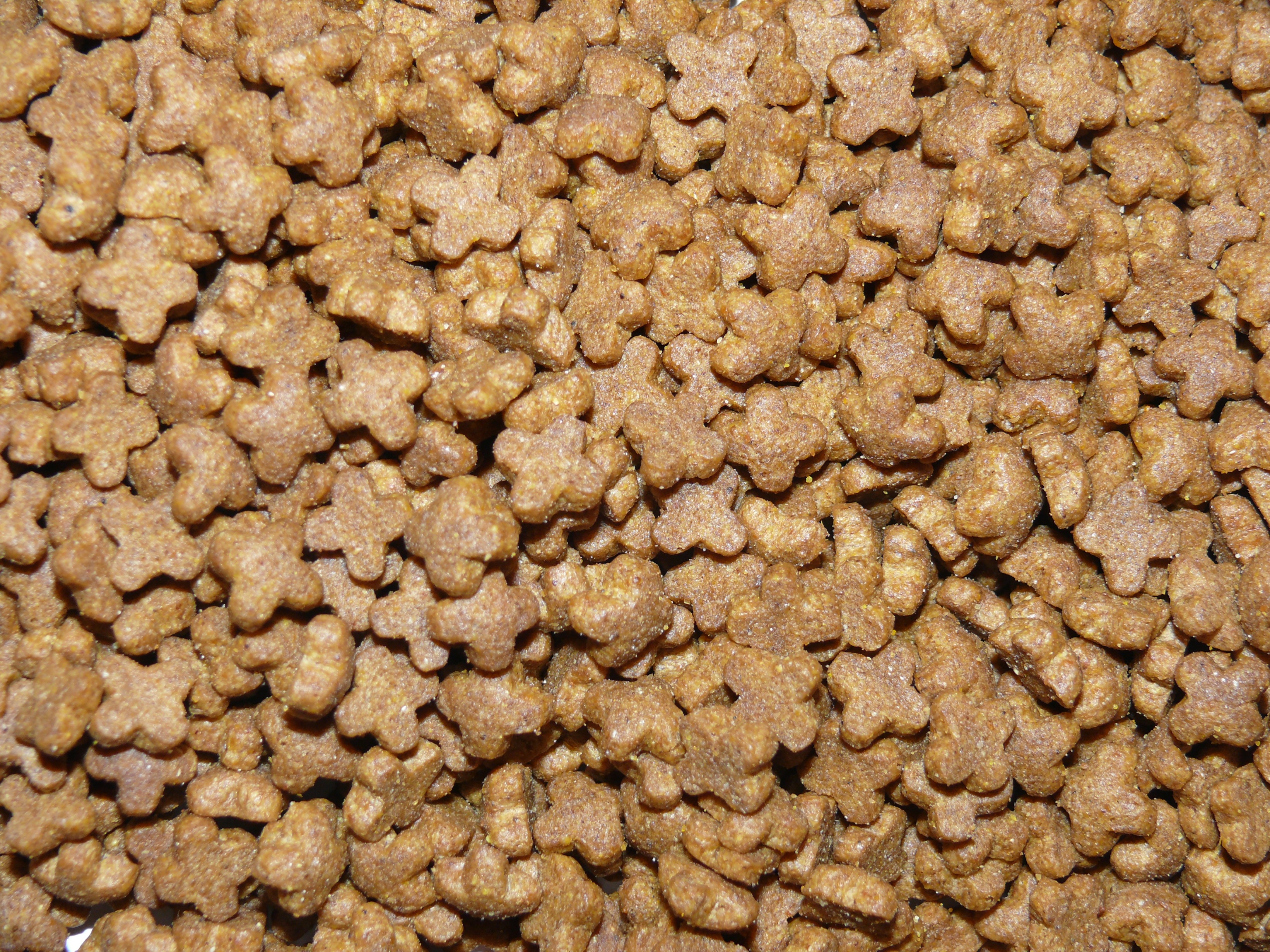 Cat food